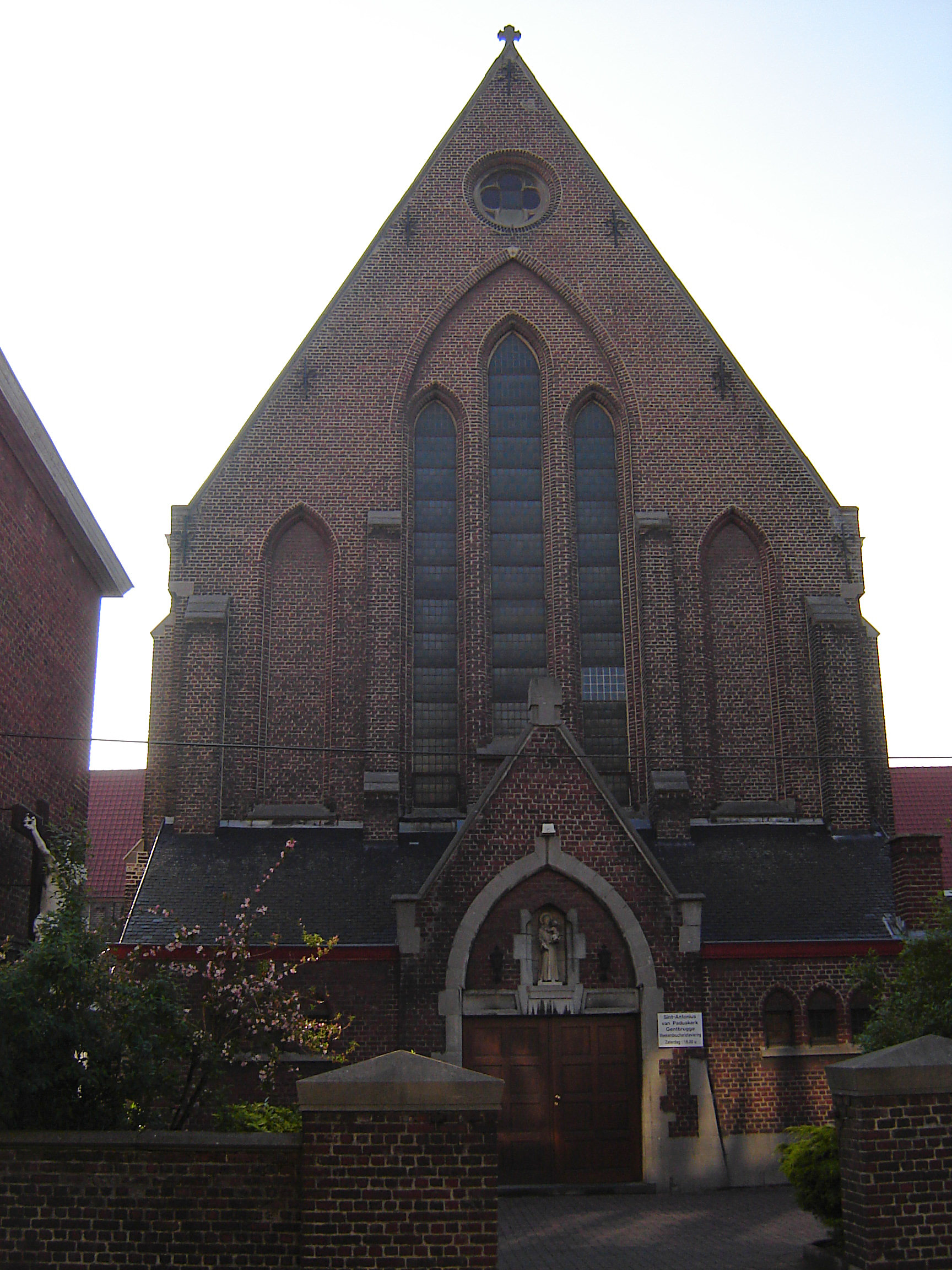 Church of Saint Anthony of Padua in Gentbrugge. Gentbrugge, Gent, East Flanders, Belgium